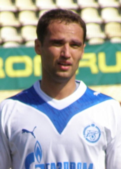 Russian midfielder Roman Shirokov